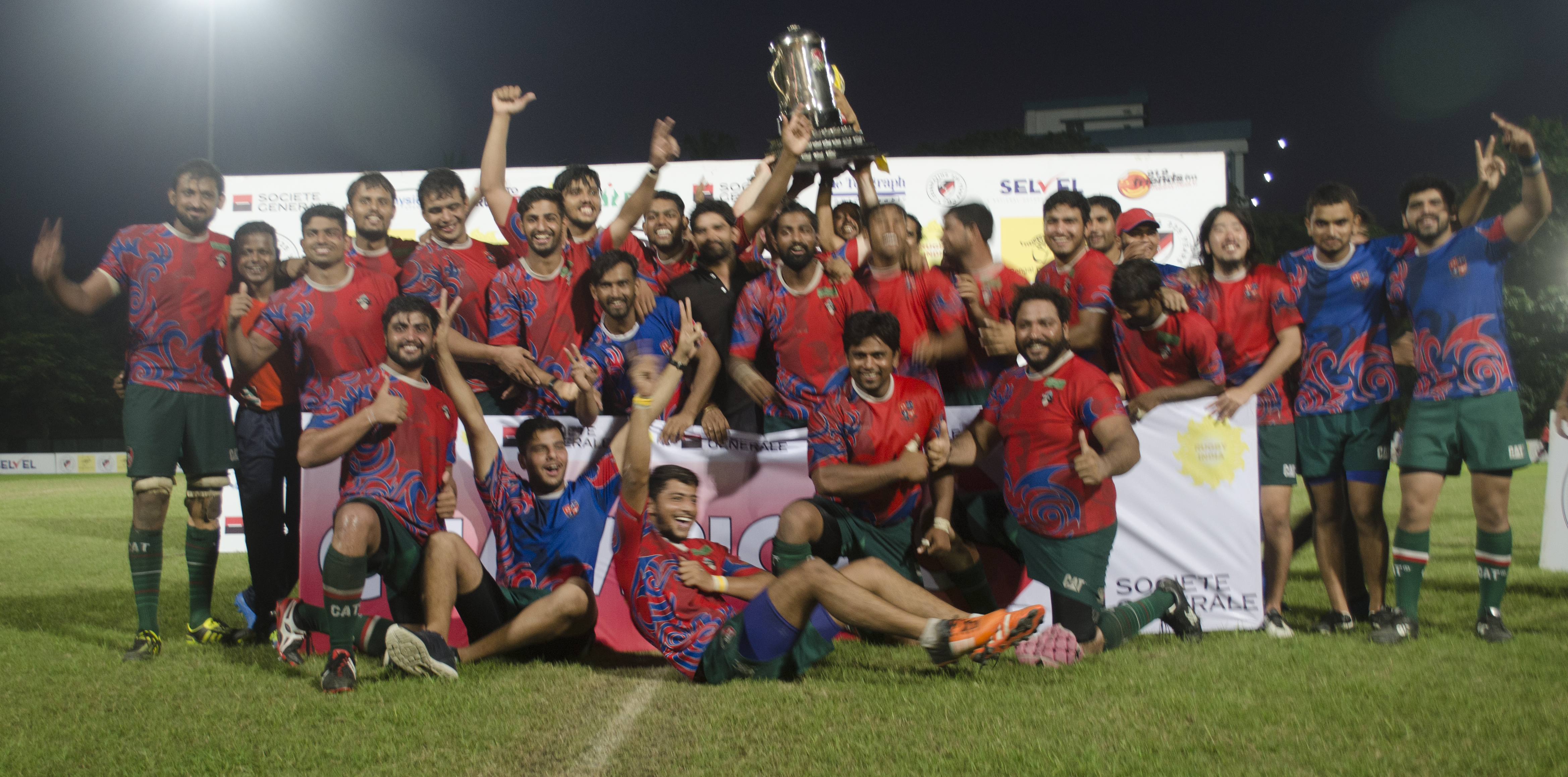 Men's Champion All India Rugby 2017